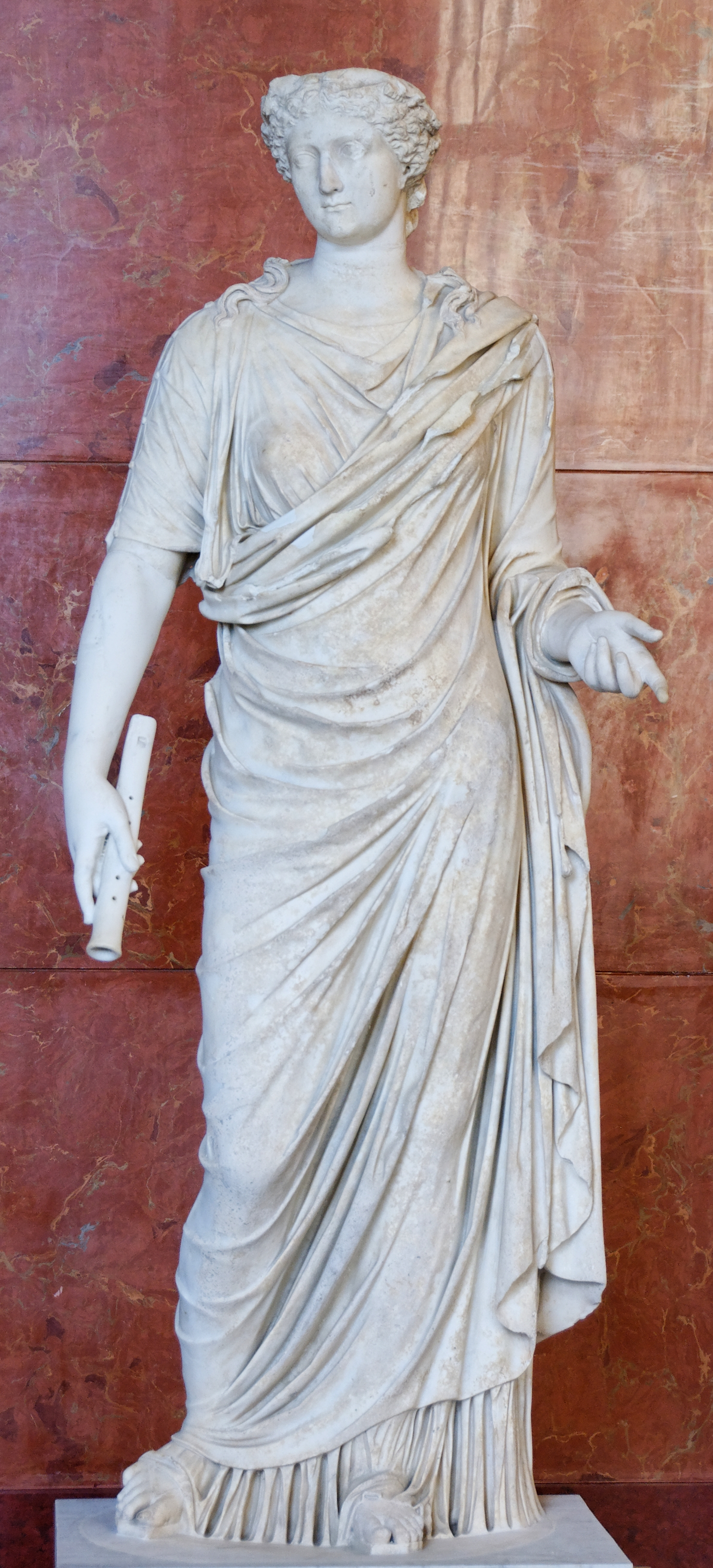 Livia Drusilla, wife of Emperor August. Marble, the Roman head (ca. 50 AD) was added in the 18th century to the antique body.